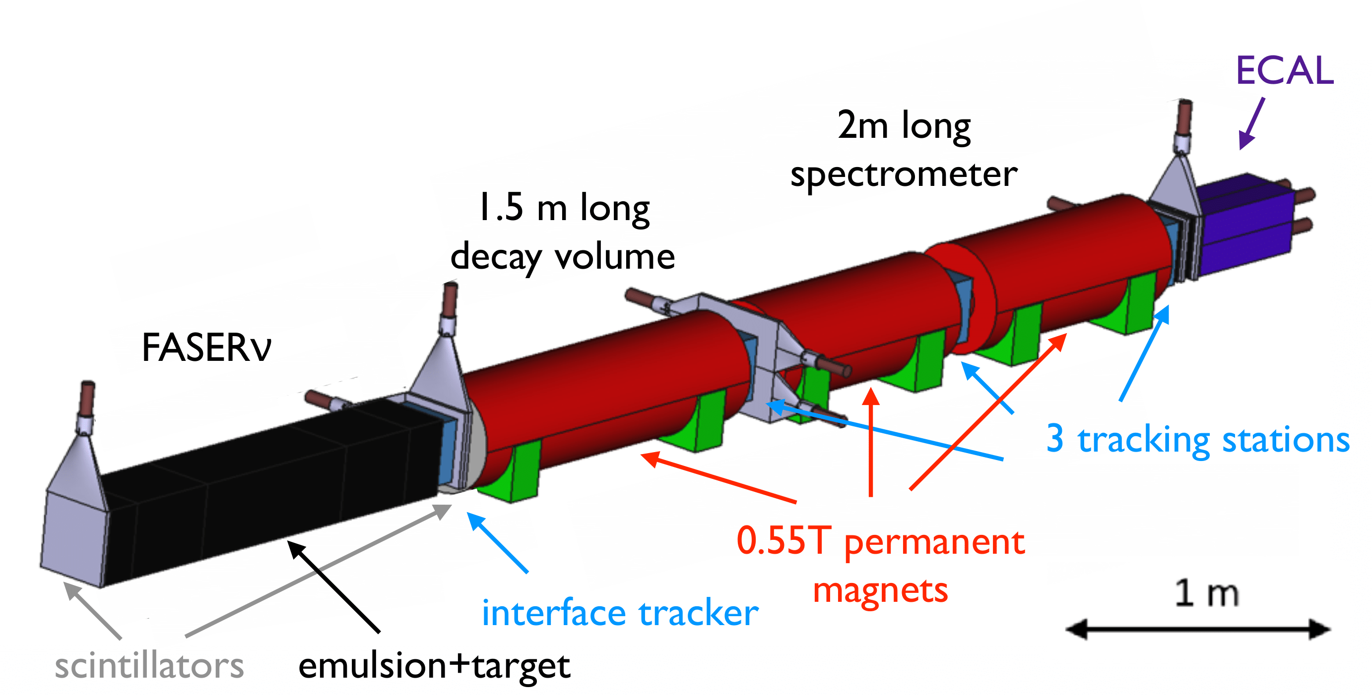 Schematic design of the FASER detector: the detector components include the FASERν emulsion detector (black), scintillators (grey), the interface detector and spectrometer tracking layers (blue), permanent dipole magnets (red), and the electromagnetic calorimeter (purple).